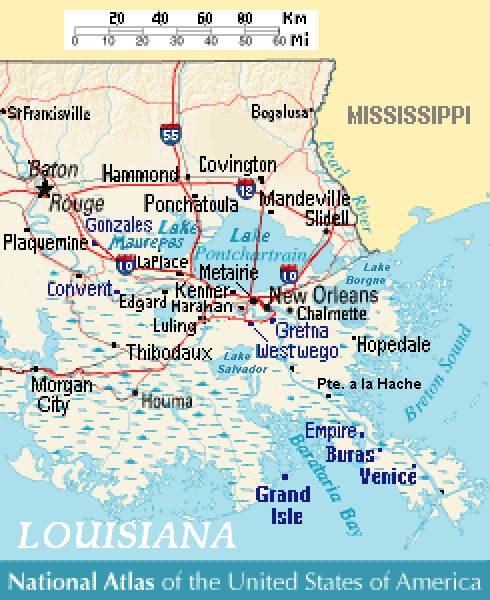 Close view of east-southeast Louisiana (USA), showing areas of Baton Rouge, New Orleans, Metairie, Chalmette, Gretna, Westwego, Harahan, Luling, Kenner, LaPlace, Edgard, Convent, Slidell, Mandeville, Covington, Ponchatoula, Empire, Buras, Venice, and Grand Isle, Louisiana. Lakes include: Lake Pontchartrain, Lake Maurepas (west), and Lake Salvador (south).